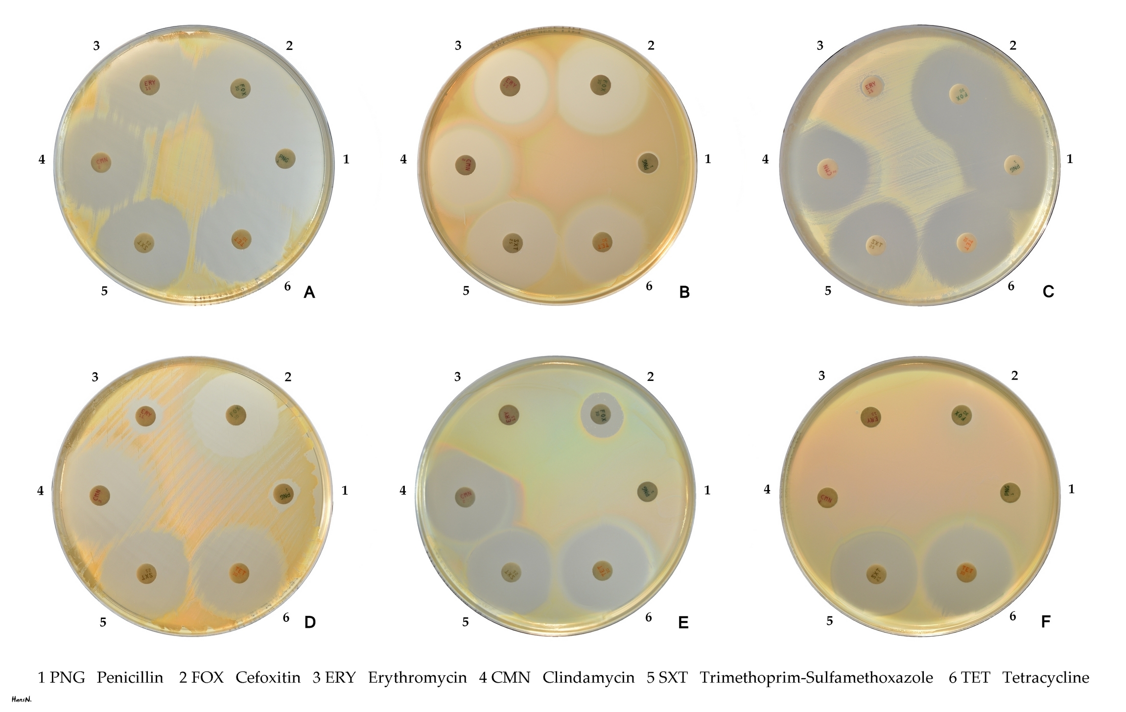 The disk diffusion test performed with six strains of Staphylococcus aureus illustrates resistance of this bacterium to commonly used anti-staphylococcal antibiotics. Resistance of S. aureus to antibiotics in general varies considerably with the highest resistance to penicillin (B, D, E, F), erythromycin (C, D, E, F) and clindamycin (F). In images C, E you can see inducible resistance to clindamycin. Flattening of the clindamycin zone of inhibition in the area between the clindamycin and erythromycin disks to resemble the letter "D" indicates inducible resistance and infections caused by these strains should not be treated with clindamycin. Notice that inducible resistance to clindamycin is not present in strain D. S. aureus strains reveal varying susceptibility to cefoxitin and tetracycline but some MRSA strains remain susceptible to these antibiotics (MRSA strains E, F).